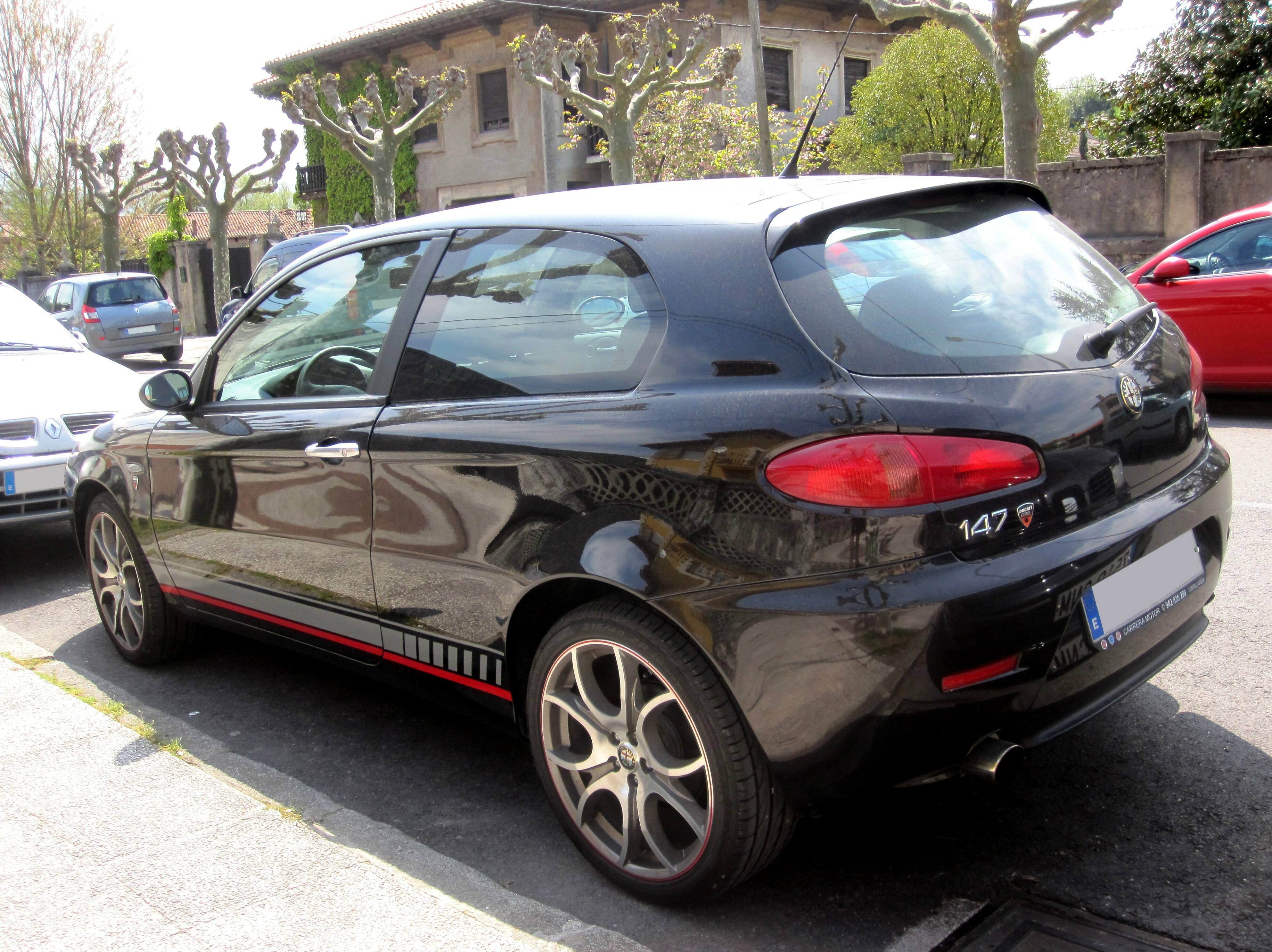 Special edition of the 147. I had never seen one before in person, I do like it.